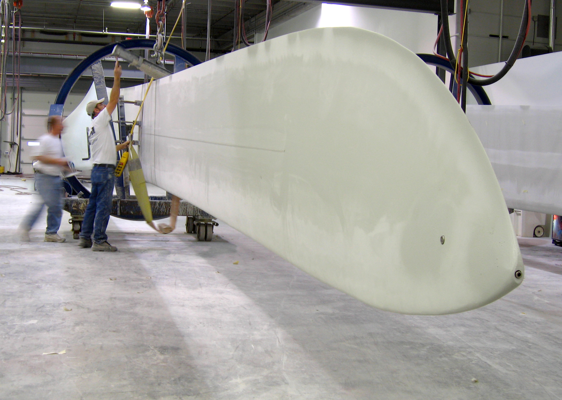 Workers at LM Windpower factory in Grand Forks, North Dakota making a giant blade for a wind turbine